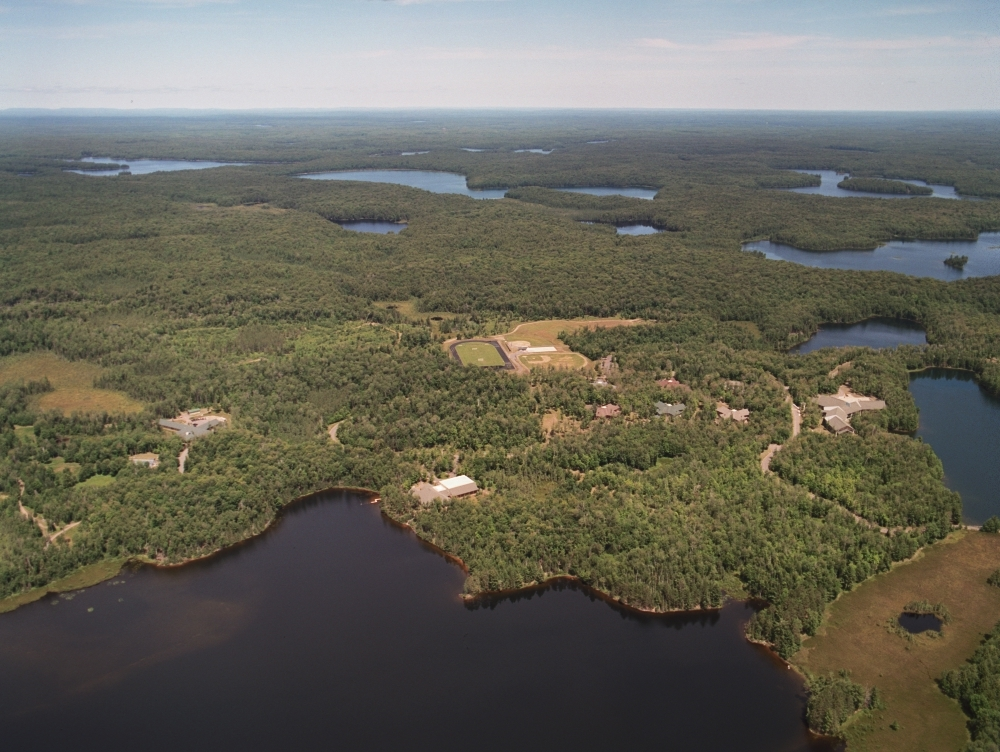 An aerial photograph with Conserve School in the foreground and the Sylvania Wilderness and Recreation Area in the background.